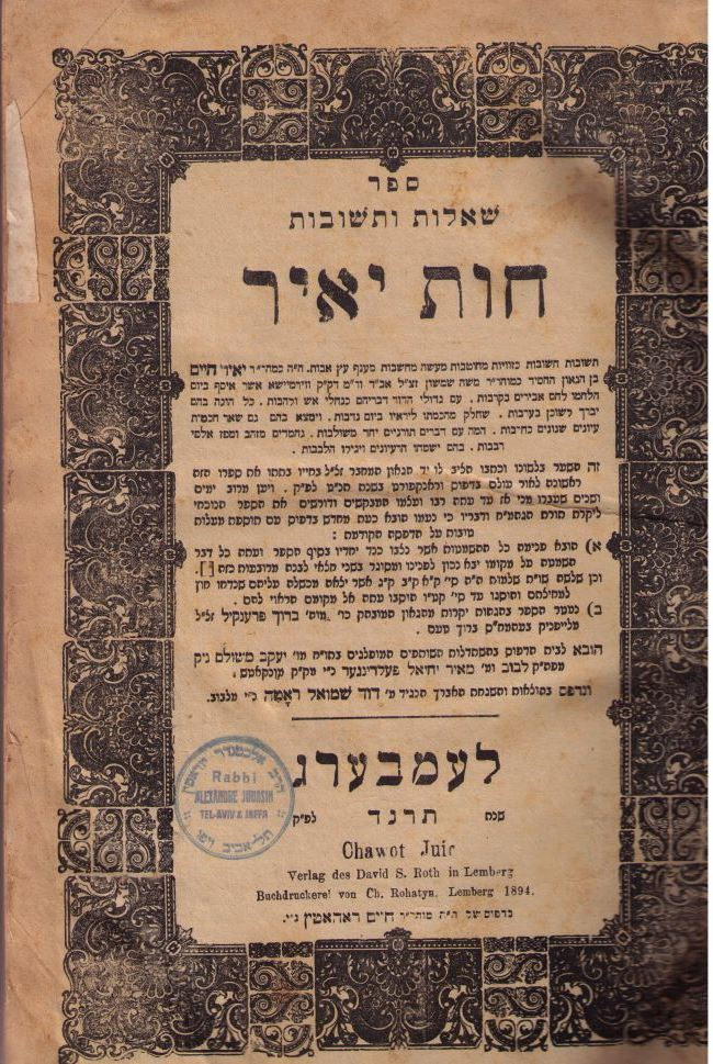 Title page of Havot Yair by Yair Bacharach, published in Lemberg, 1894